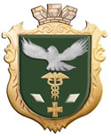 Slavyank city (Ukraine) coat of arms.